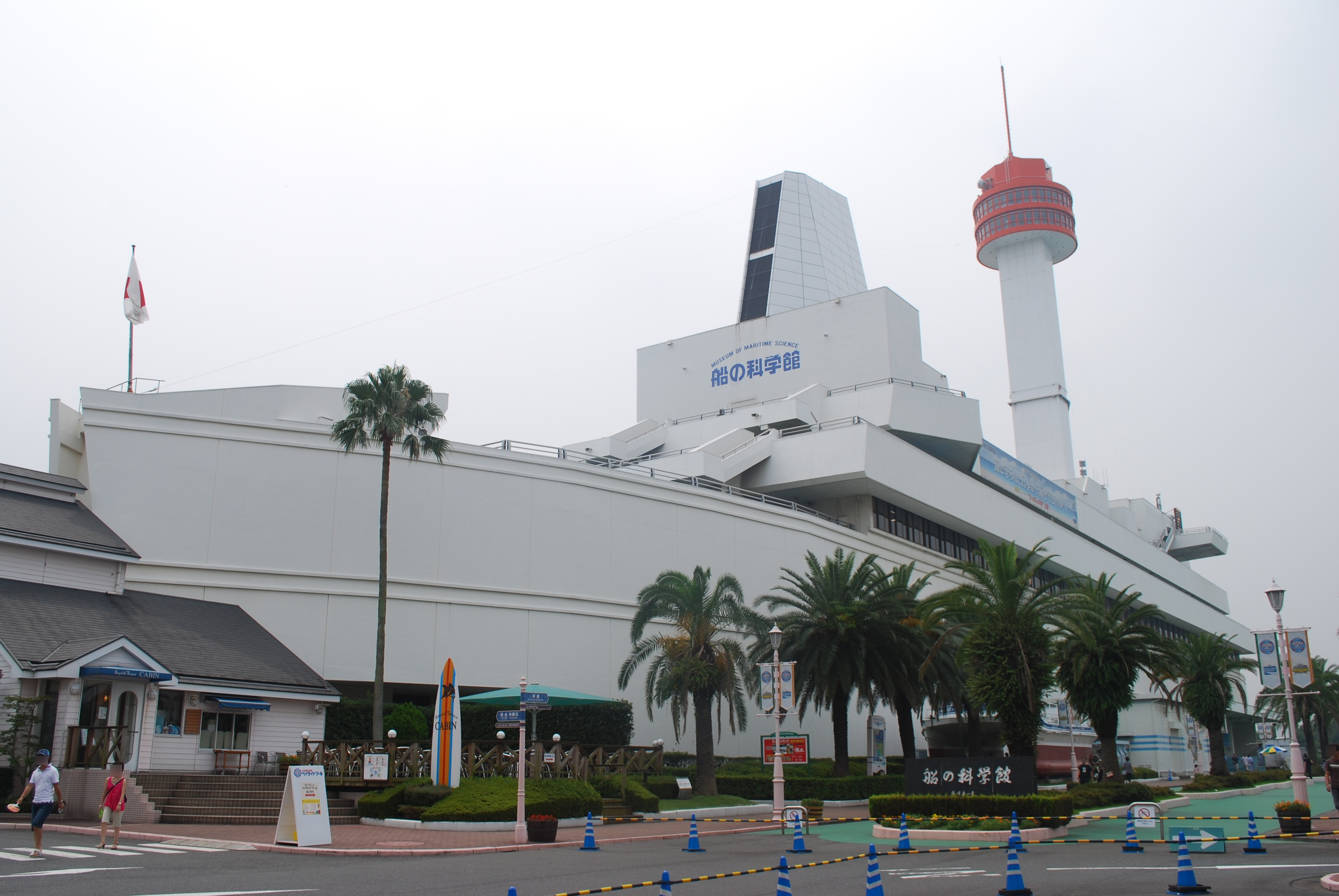 Museum of Maritime Science,Shinagawa-ward,Tokyo,Japan